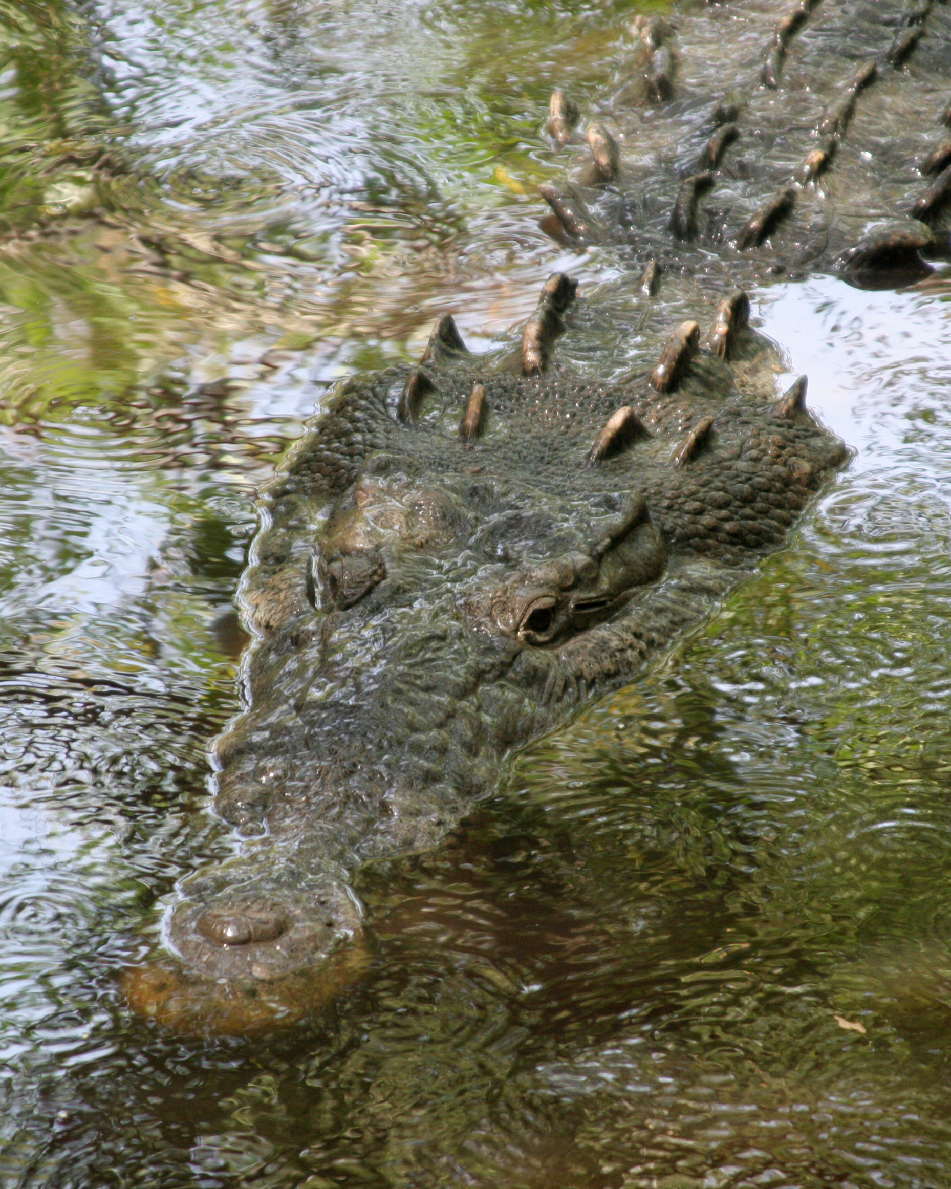 An american crocodile (Crocodylus acutus). This photograph was taken at La Manzanilla, Jalisco State in Mexico, on the Pacific Coast.